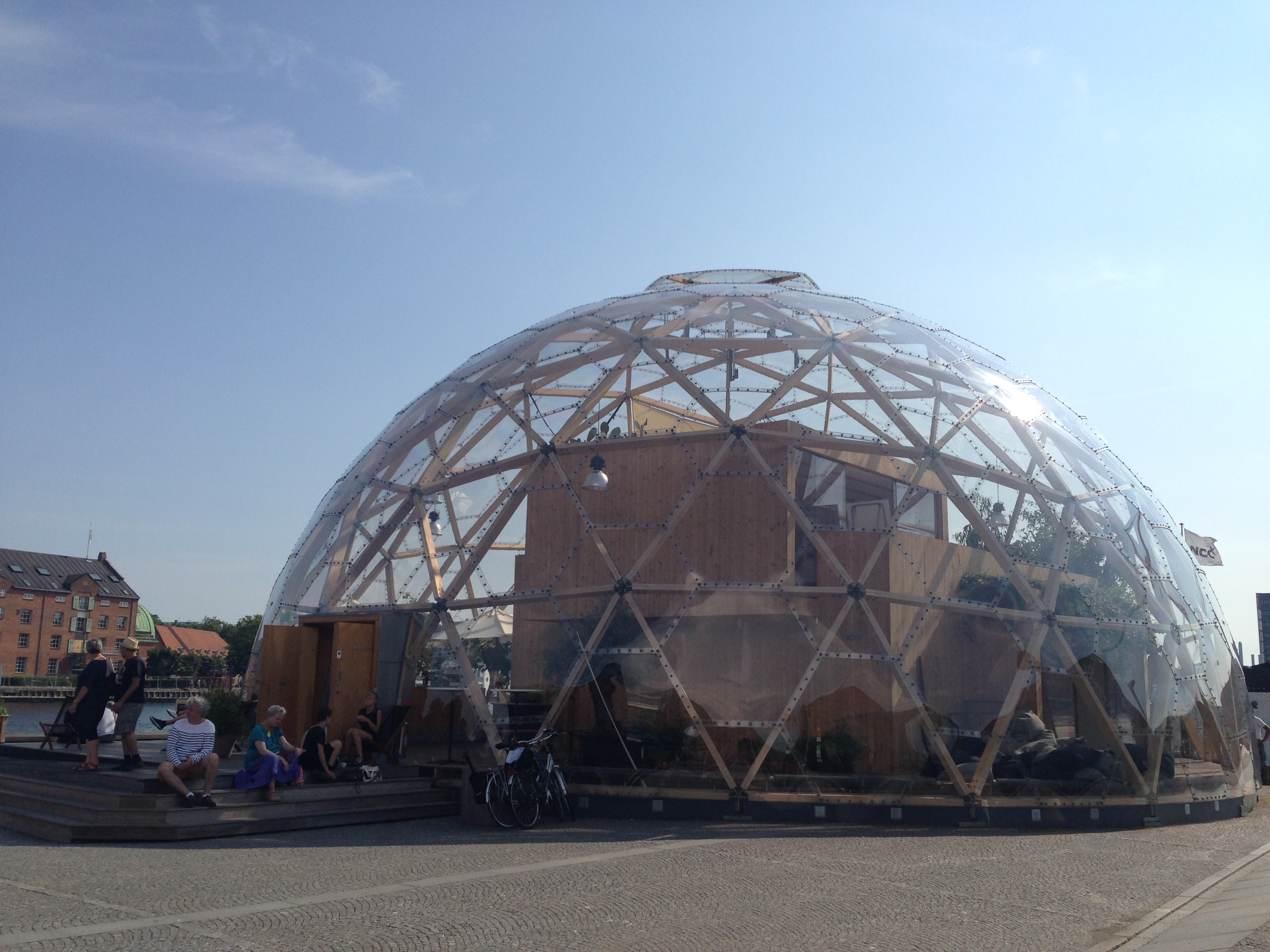 The Dome of Visions project is about putting action into words and following through on new ideas in construction and urban thinking and planing. The dome is intended specially to inspire and to challenge regarding the solutions for the climate challenges to come. Photographed at Søren Kierkegaards Plads, Copenhagen.